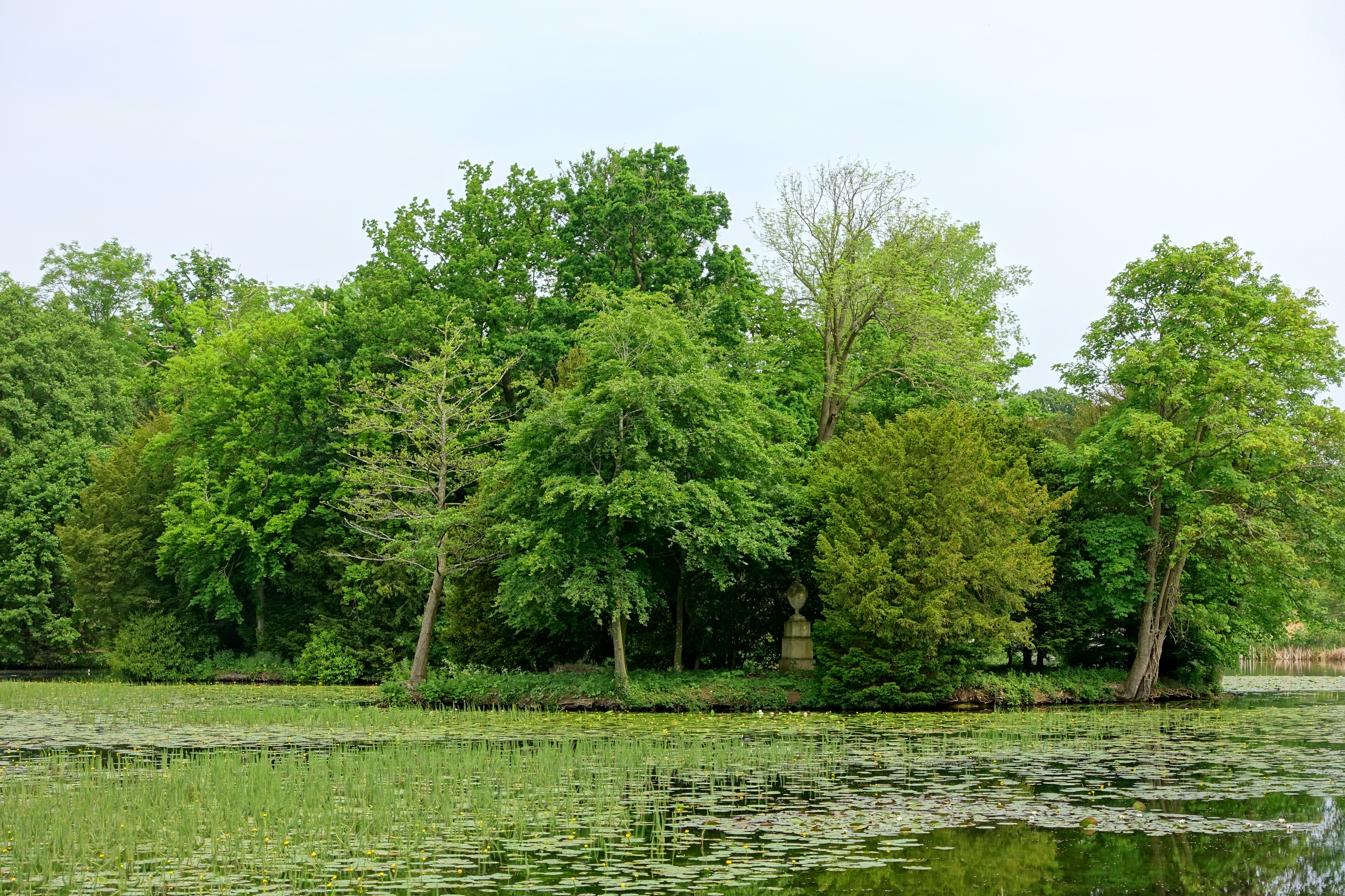 Lord Chatham's Urn, Stowe - Buckinghamshire, England. This is a replica of the original urn. The Seeley Guidebook from 1832 states that the Chatham Urn was "originally erected by Hester Grenville Countess of Chatham [sister of Earl Temple], in memory of William the great Earl of Chatham, her husband, at Burton Pynsent, in Somersetshire, his country seat. When her ladyship died [1803], and Burton Pynsent was disposed of, the Urn was given by John Earl of Chatham to the Duke of Buckingham, and placed in its present situation."